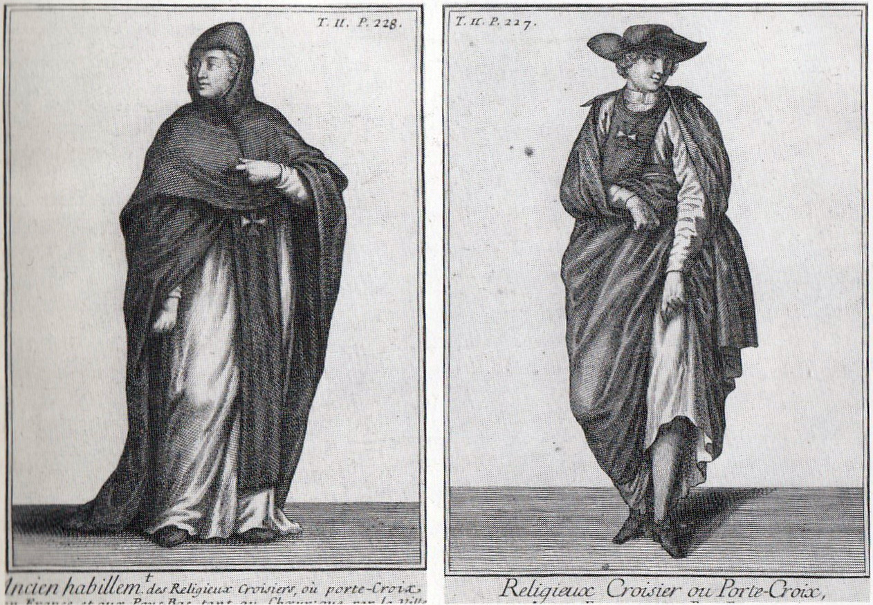 Two drawings of canons belonging to the Order of Crutched Friars (or Croziers), the one on the left in ancient costume (medieval?), the one on the right in 18th-century attire. From: Collection de costumes de tous les ordres monastiques, supprimés à differentes époques, dans la ci-devant Belgique, Brussels, 1811.